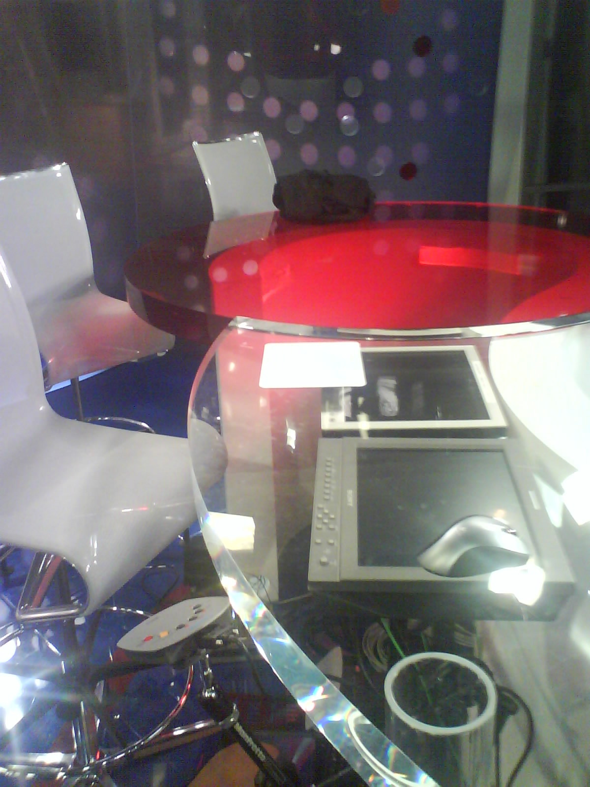 Studio 7 (NRK2), NRK Marienlyst